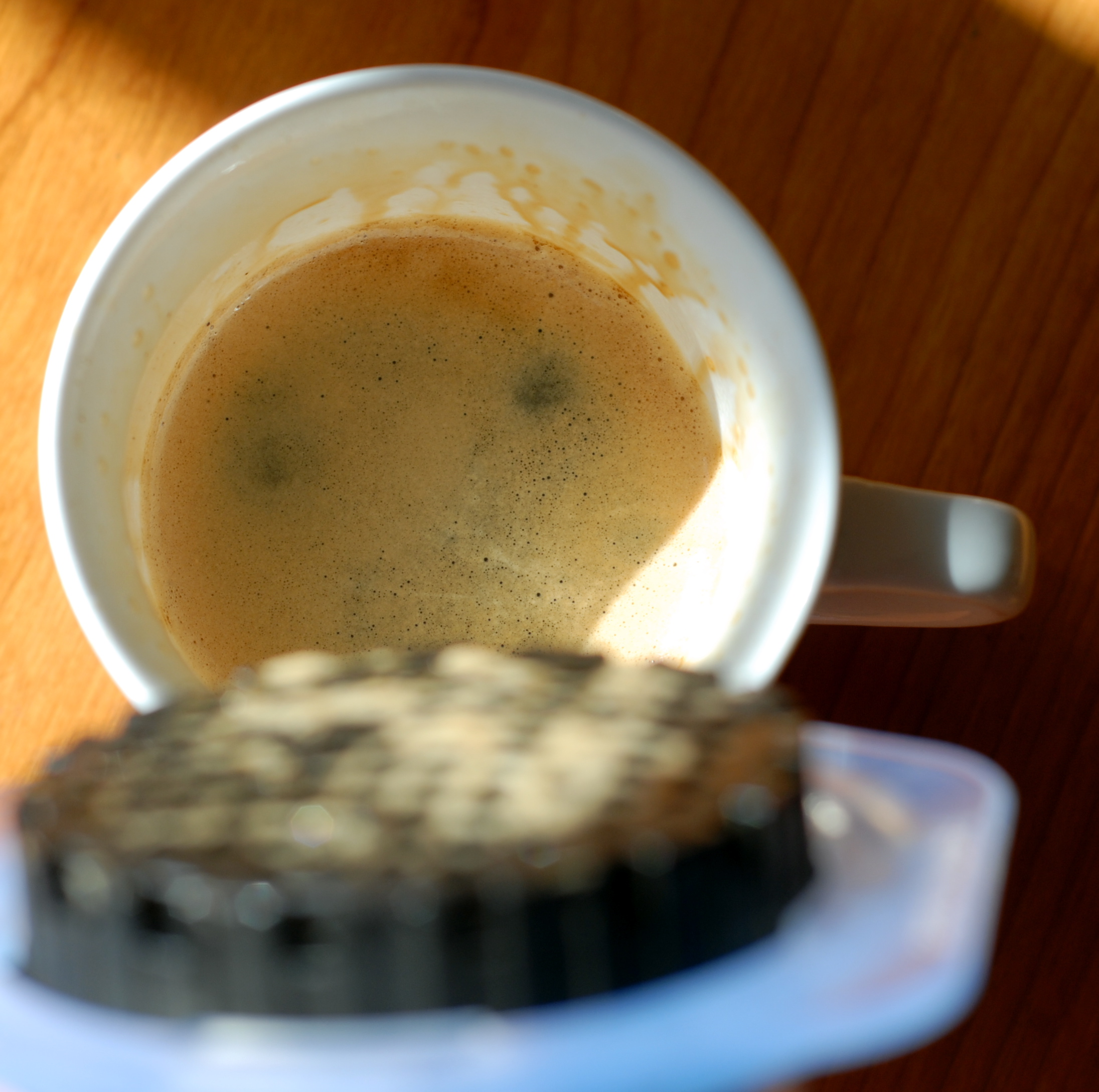 James Simon, Aeropress coffee